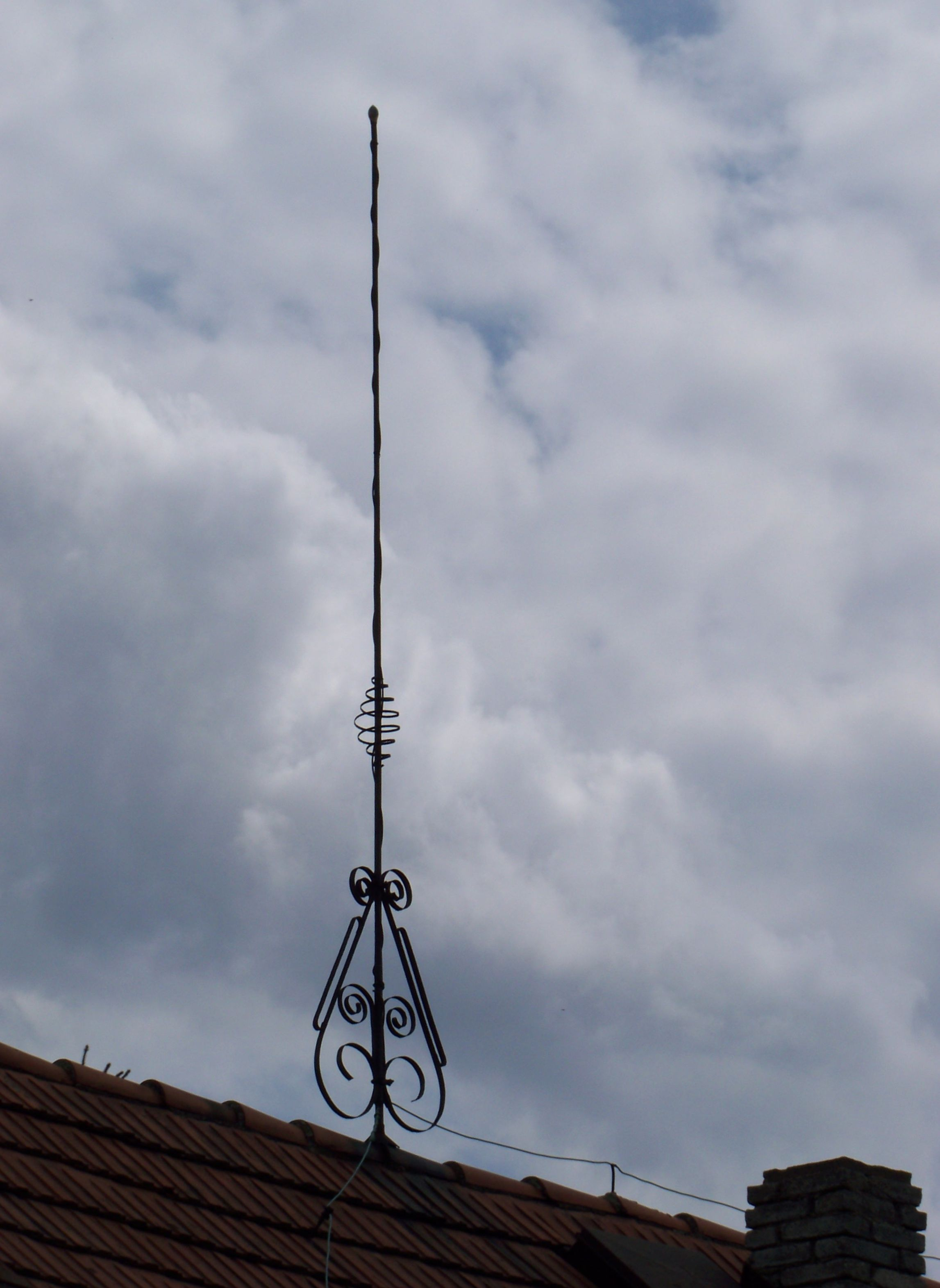 Hudlice, Beroun District, Central Bohemian Region, the Czech Republic. Jungmannova 18, a lightning rod.